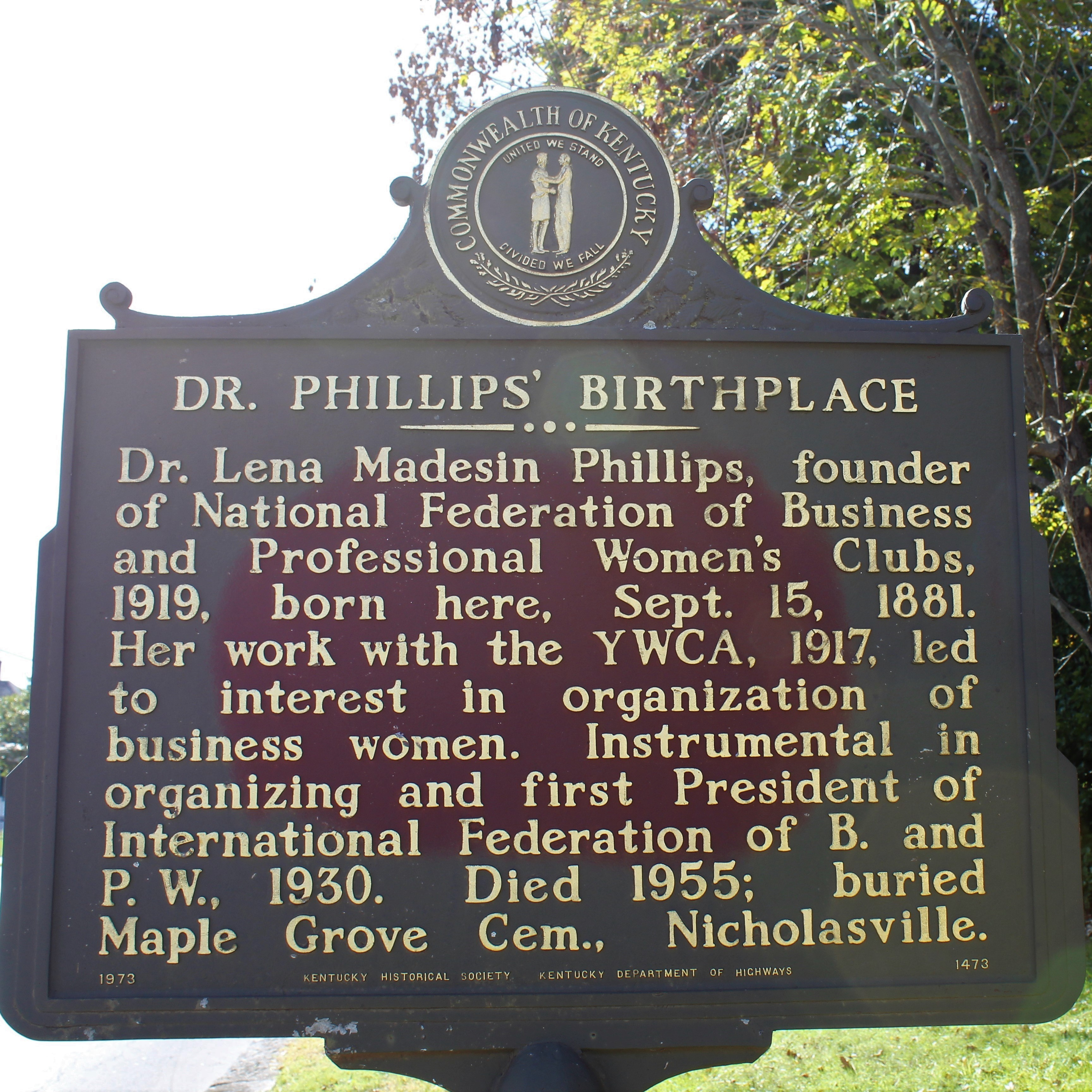 Historical marker at the birthplace of Lena Madesin Phillips in Nicholasville, Kentucky. The marker summarizes Phillips's life and work and was erected by the Kentucky Historical Society and the Kentucky Department of Highways in 1973.